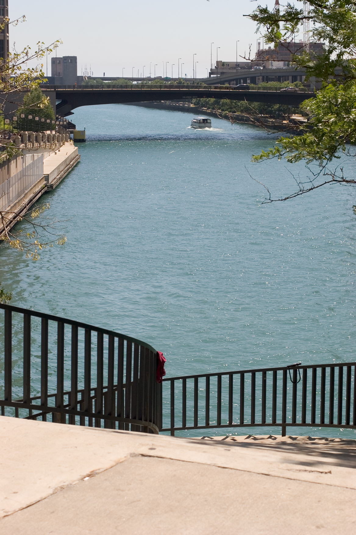 Chicago River, IL, USA.